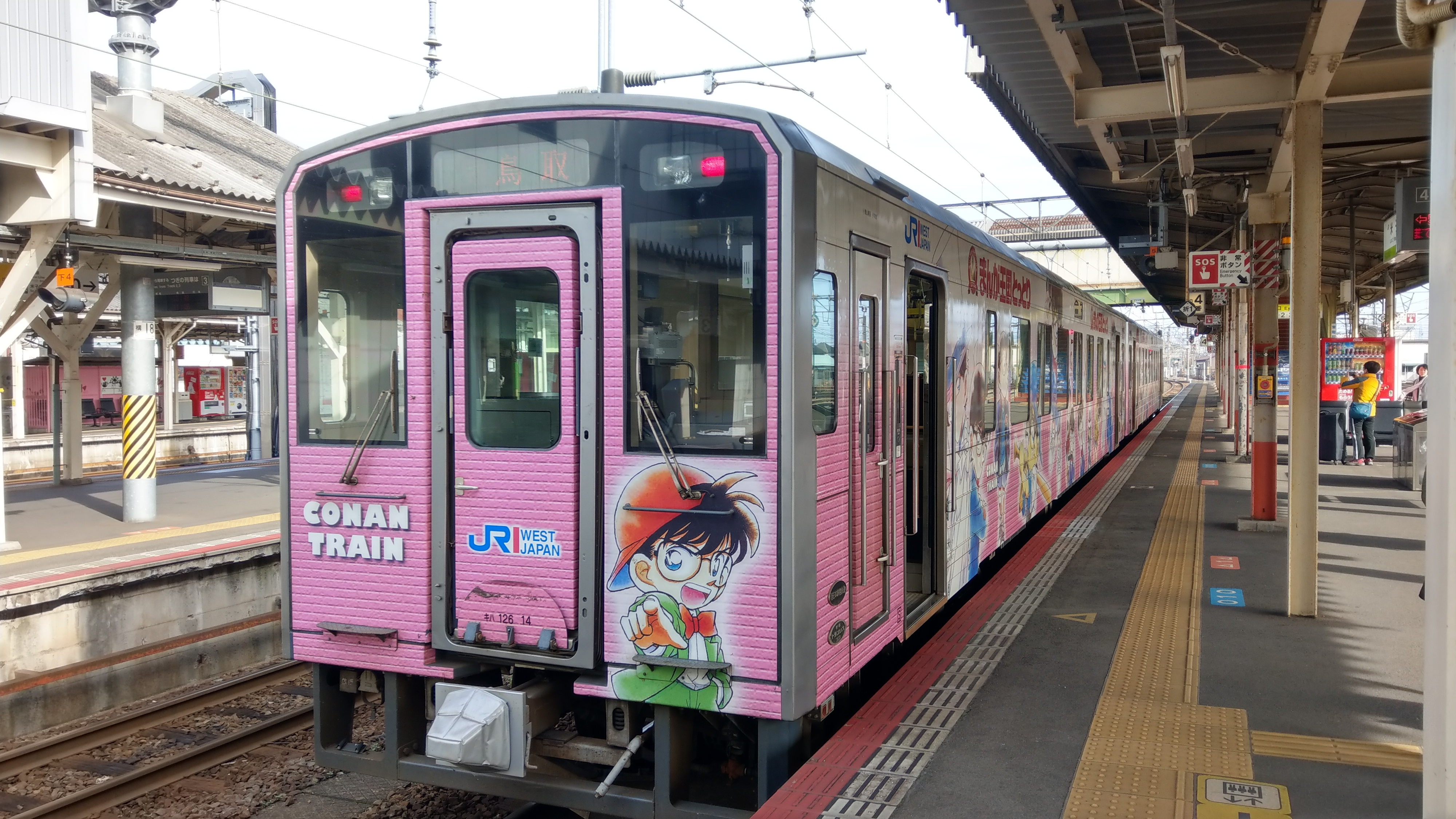 Tottori Liner with Detective Conan appearance in Yonago Station.